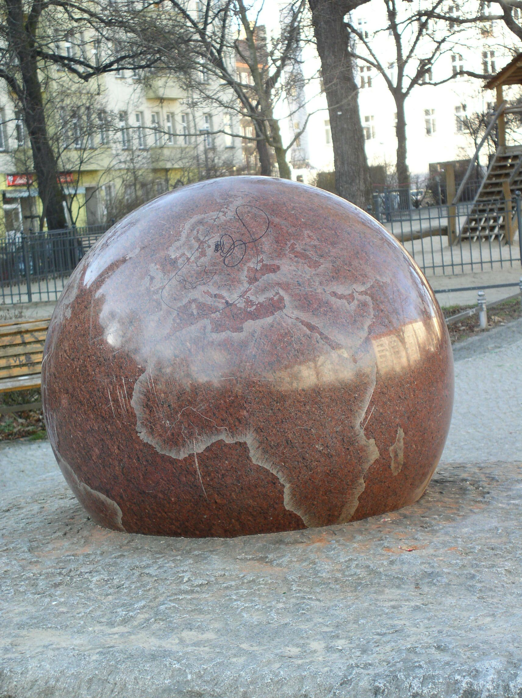 A gneiss globe on Petersburger Platz in Friedrichshain, Berlin. During summer, the sphere is lying on a thin film of water, so one can rotate the globe.